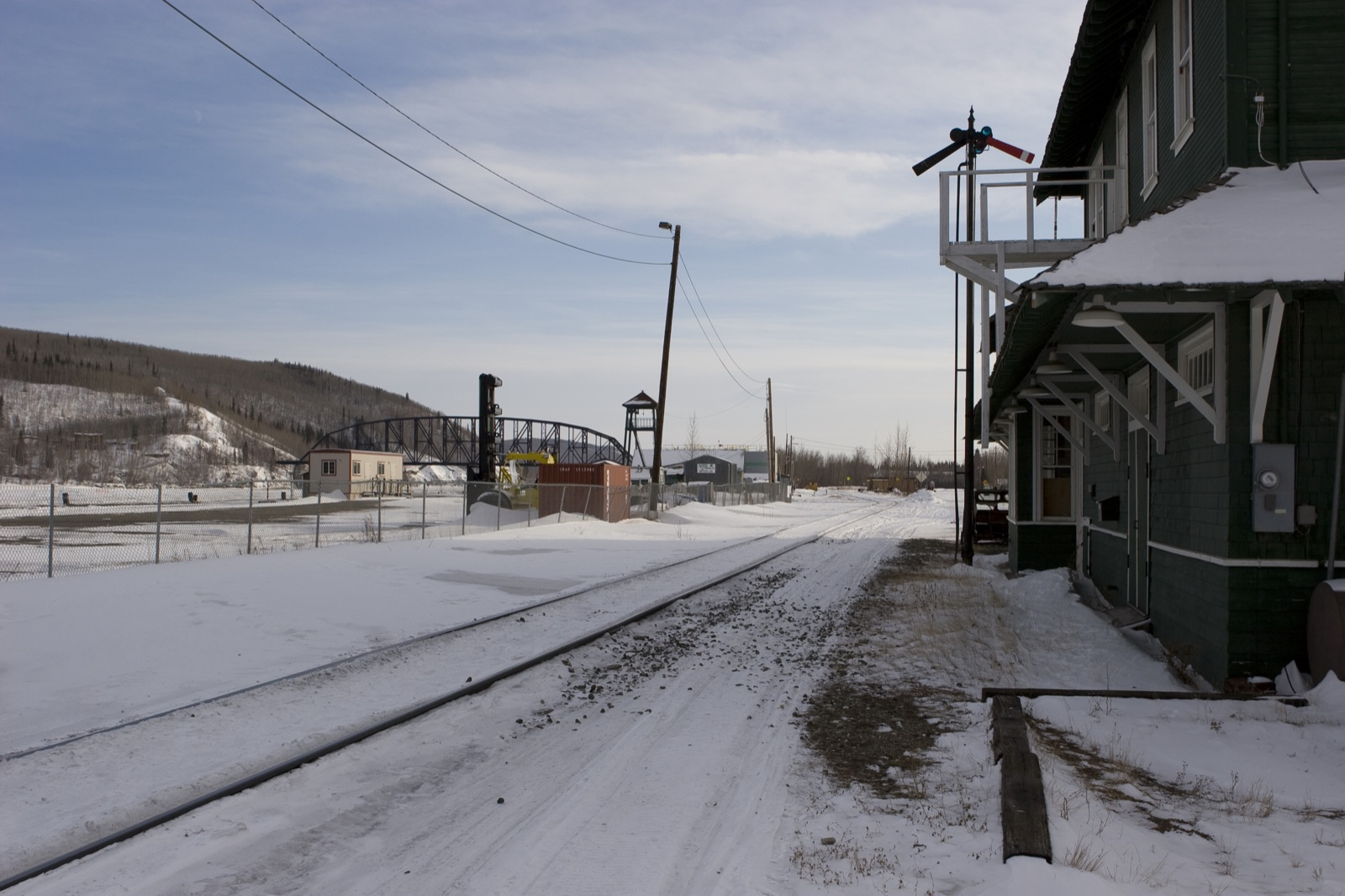 Railroad station in Nenena Alaska